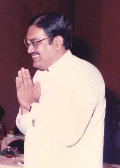 Anura Bandaranaike, Speaker of the Parliament of Sri Lanka (2000–2001)